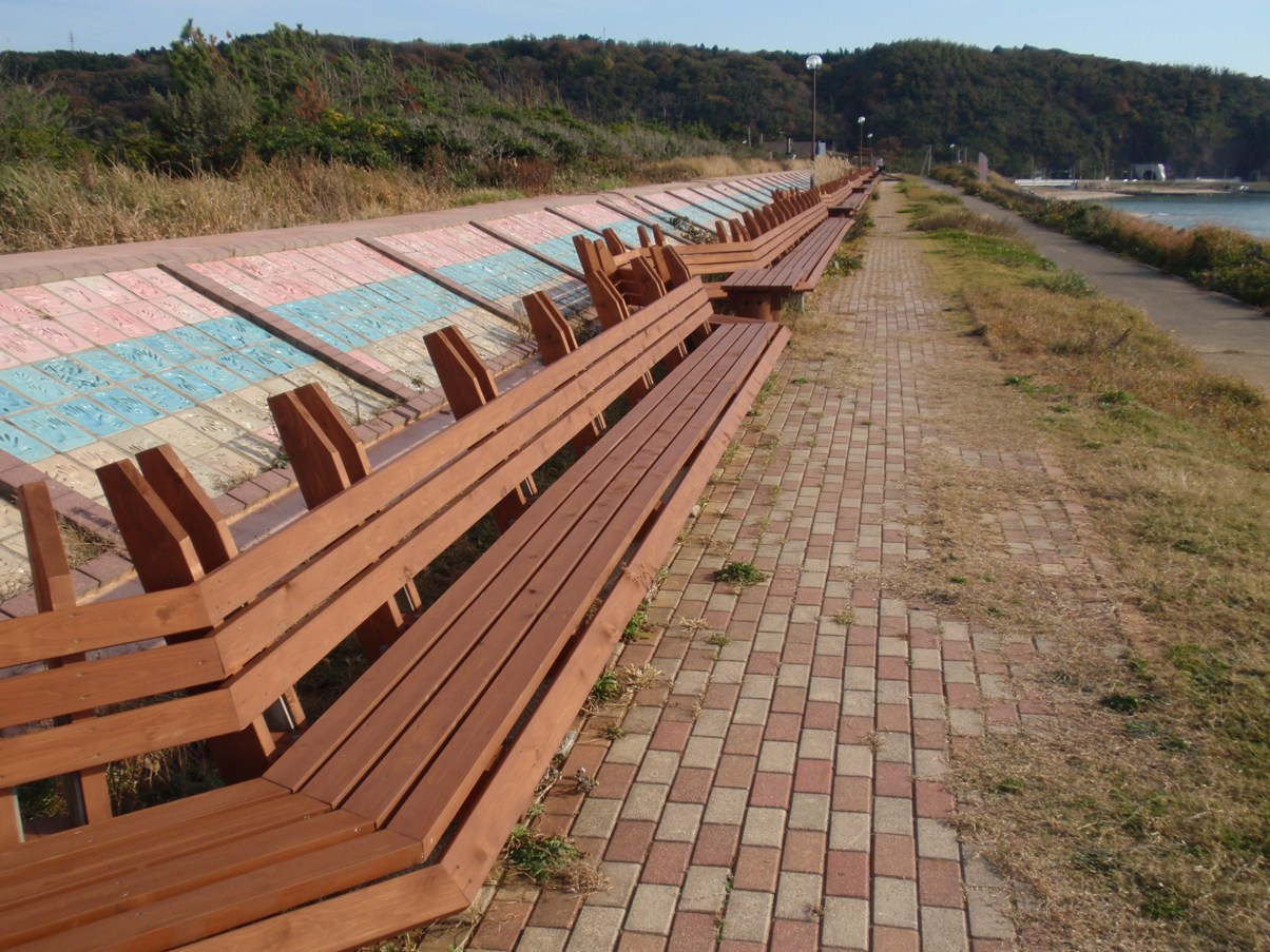 The Longest Bench of the World, in Shika, Ishikawa, Japan.406m